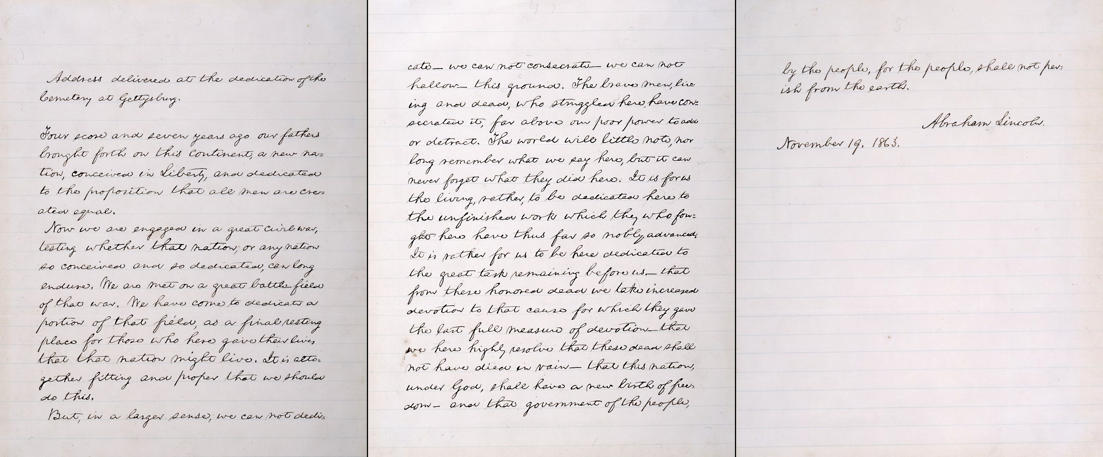 Lincoln's fifth and final draft of the Gettysburg Address, written in March 1864 as a favor for a friend to help raise funds for the Union cause. Because of the apparent care in its preparation, and in part because Lincoln provided a title and signed and dated this copy, it has become the standard version of the address and the source for most facsimile reproductions of Lincoln's Gettysburg Address. It is the version that is inscribed on the South wall of the Lincoln Memorial. This copy is kept on view in the Lincoln Bedroom on the second floor of the White House.